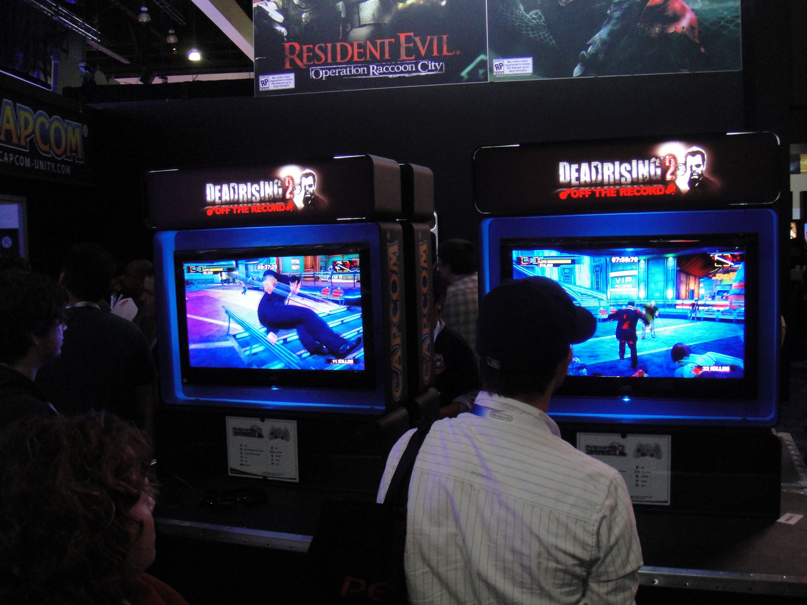 photo 2011 taken by Doug Kline If you're interested in higher resolution versions of my images, contact me via my profile page.